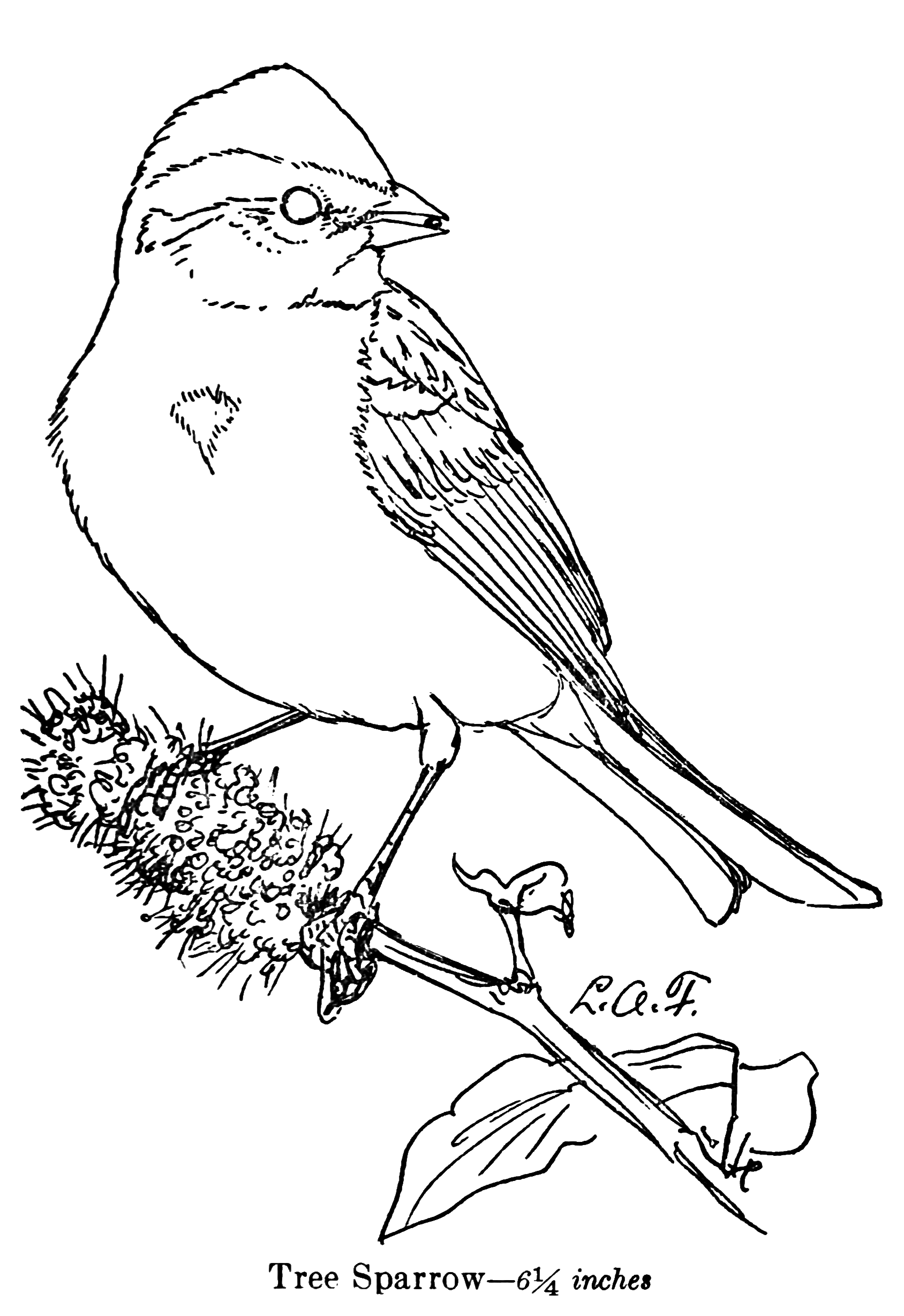 Tree Sparrow Plate No. 3, from To Accompany Manual of Bird Study or To accompany A manual of bird study, issued by the American Museum of Natural History